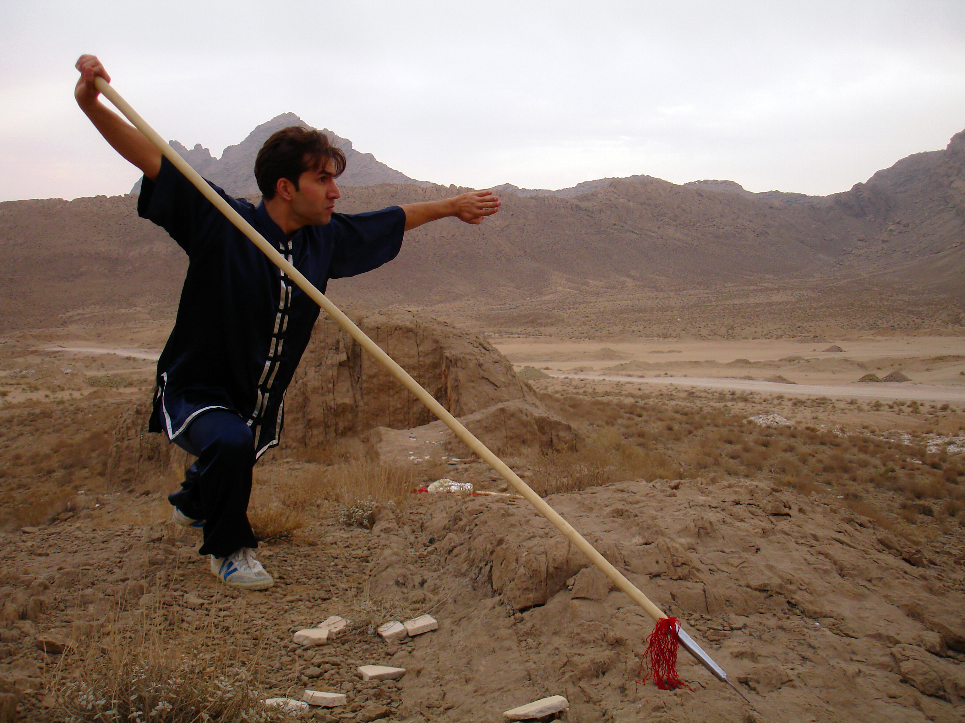 Kung fu/Kungfu or Gung fu/Gongfu (/ˌkʌŋˈfuː/ (About this sound listen) or /ˌkʊŋˈfuː/; 功夫, Pinyin: gōngfu) is a Chinese term referring to any study, learning, or practice that requires patience, energy, and time to complete. አማርኛ: ኩንግ-ፉ (ቻይንኛ፦ ጎንግፉ) በቻይና ሀገር የሚያስተምሩ የትግል (ቡጢ) ሙያ ማለት ነው። በትክክለኛ ቻይንኛ ይህ የቡቅሻ ትግል ዉሹ ሲባል፣ የ«ኩንግፉ» ትርጉም በትክክል የማናቸውም አይነት ሙያ ወይም መልመጃ ነው። ለምሳሌ፣ «ኮንግ-ፉ ቻ» ማለት በሻይ (ቻ) ሥነ ሥርዓት ያለው ሙያ ማለት ነው። ከ1960ዎቹ ጀምሮ ግን የቻይና ቡቅሻ በተለይ በእንግሊዝኛ ኩንግ-ፉ ተብሏል።